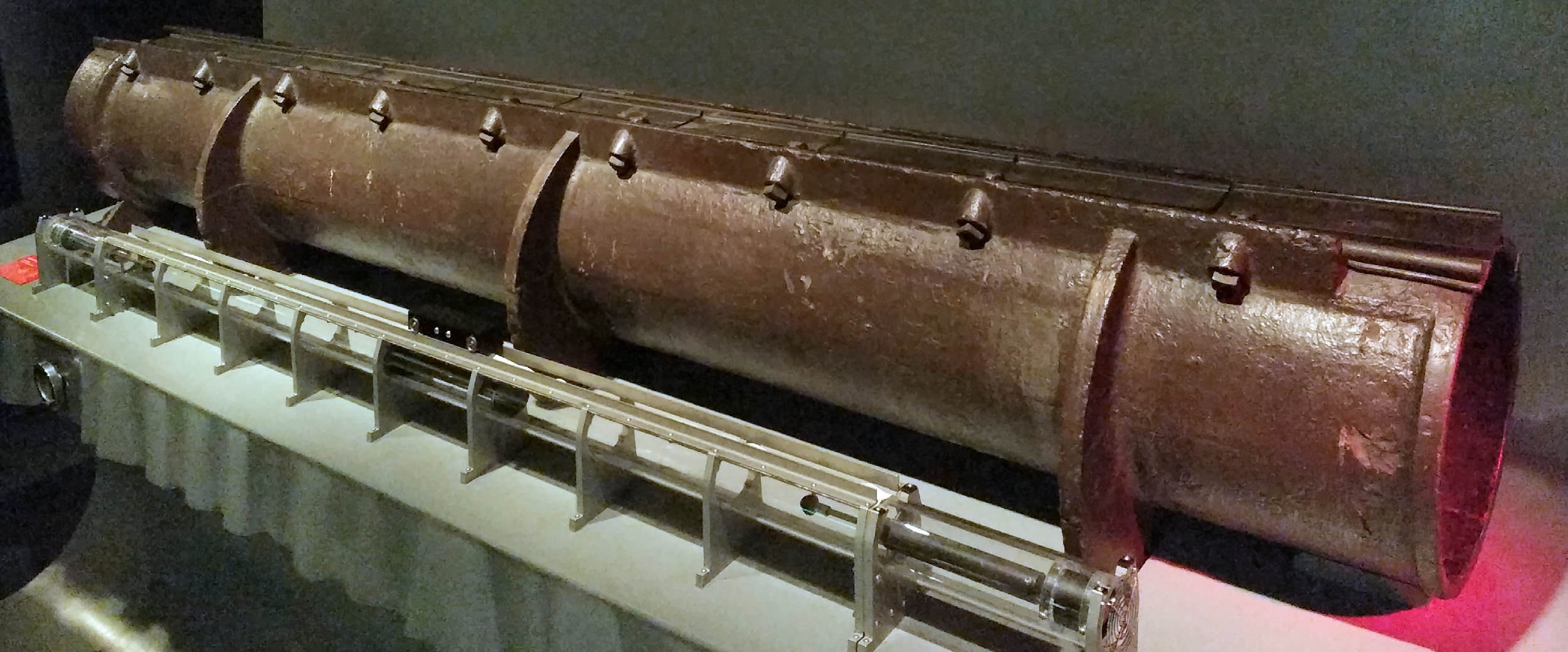 Croydon Museum. Part of the Atmospheric Railway Pipe that ran from West Croydon to Forest Hill. 1845-47